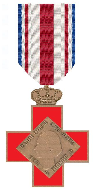 Medal of Merit for Blood Donation (Luxembourg) - reverse